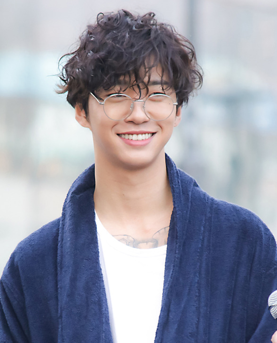 Bang Yong-guk at a fan meeting on March 11, 2017.